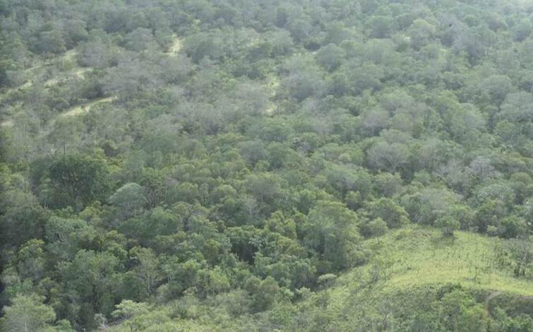 Amazon Rainforest created by he:משתמש:בן הטבע